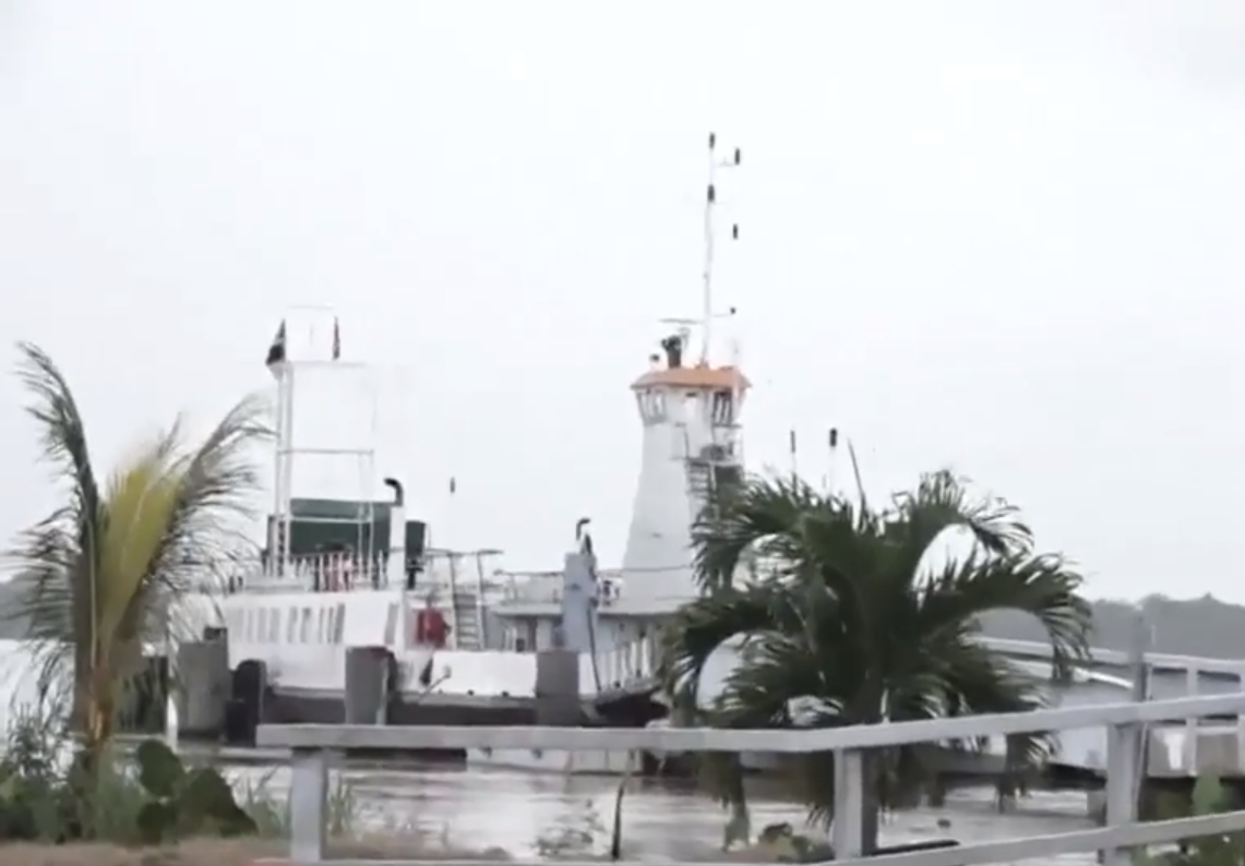 Ferry service Canawaima at South Drain, Nickerie, Suriname